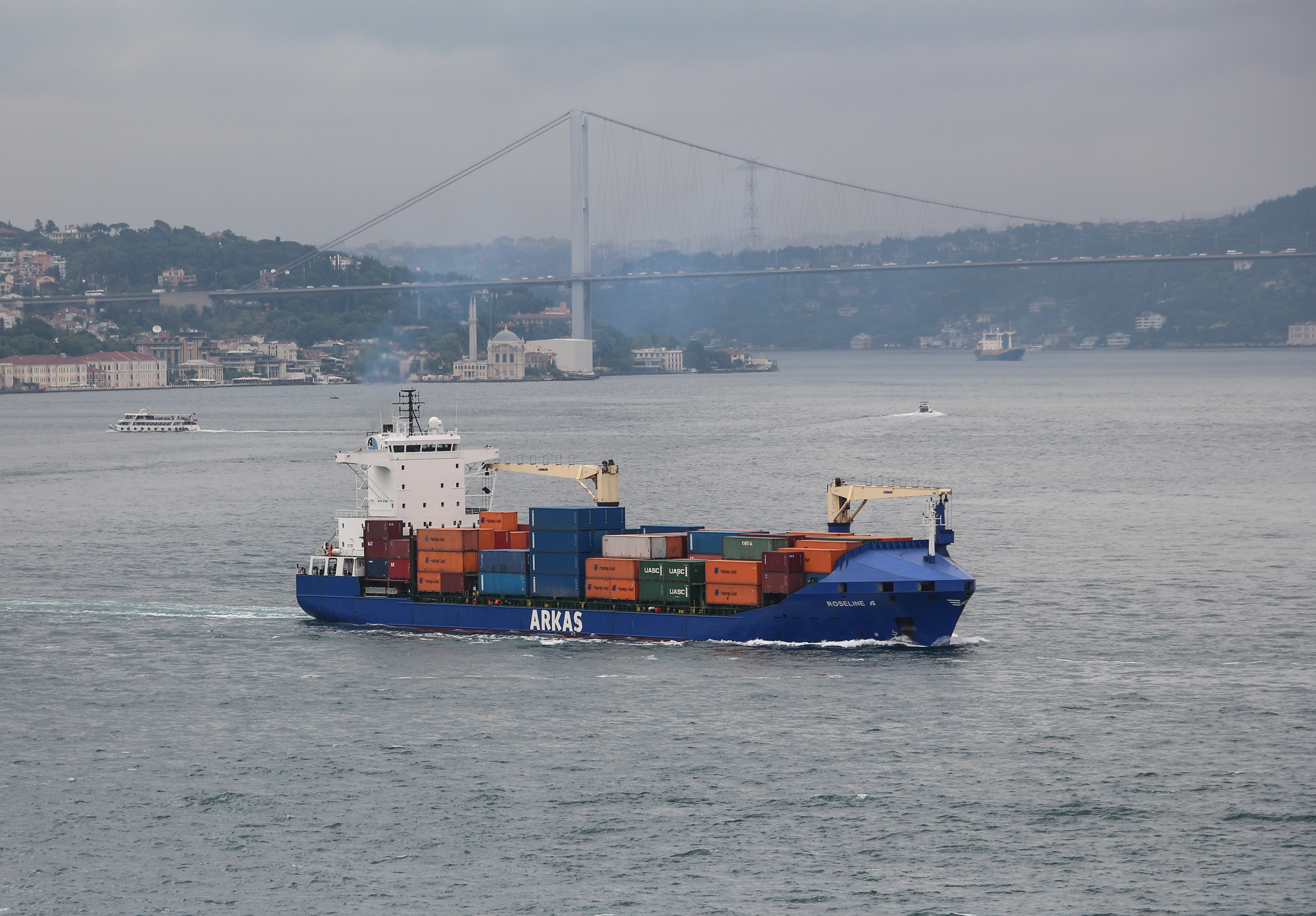 The Roseline A ship on the Bosphorus, Turkey